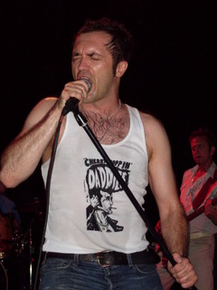 Steve Perry of the Cherry Poppin' Daddies, performing live in 2009.